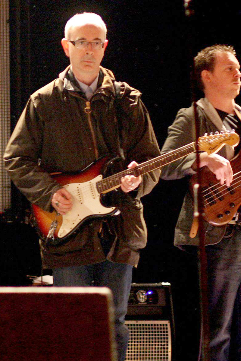 Dik Evans performing at Gavin Friday's performance at the Olympia in Dublin, Ireland, 29-11-2011